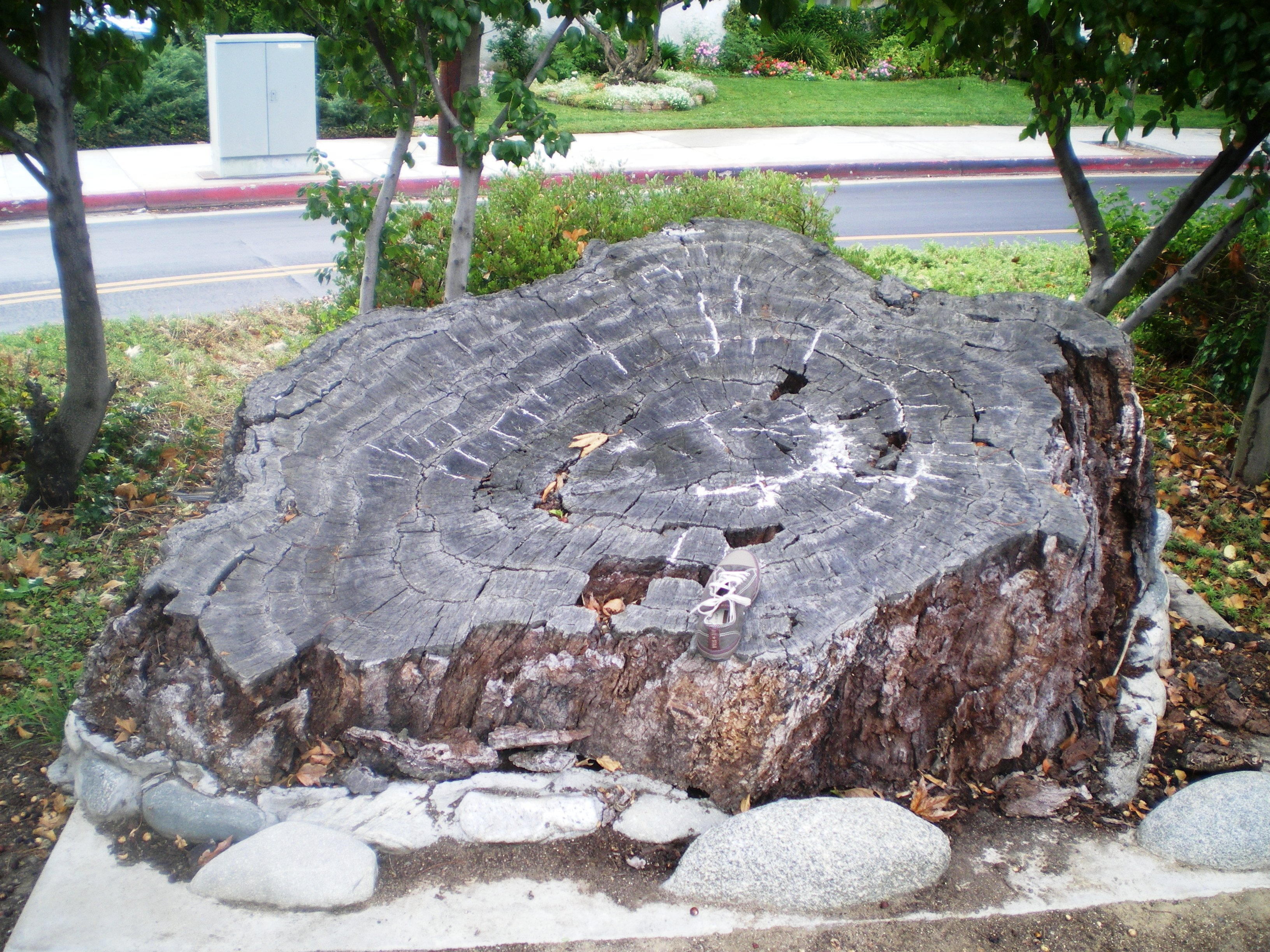 Photograph of stump of the Encino Oak Tree, aka the Lang Oak. A Los Angeles Historic-Cultural Monument located at Louise Avenue, 200 feet south of Ventura Boulevard, Encino, Los Angeles, California (size 11 shoe on trunk for perspective)